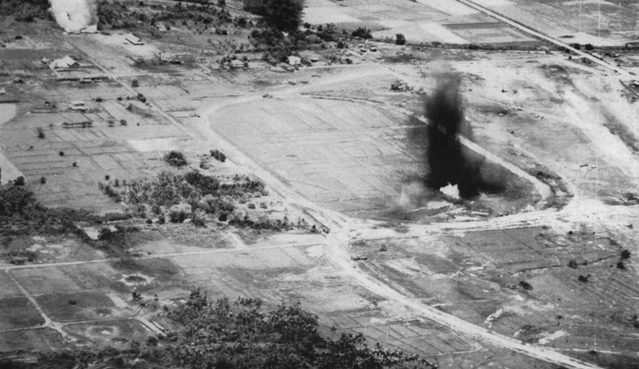 View of a Japanese airfield on Negros island, Philippines, under attack by U.S. carrier aircraft of Carrier Air Group 8 (CVG-8), in mid-September 1944. CVG-8 operated from the aircraft carrier USS Bunker Hill (CV-17).